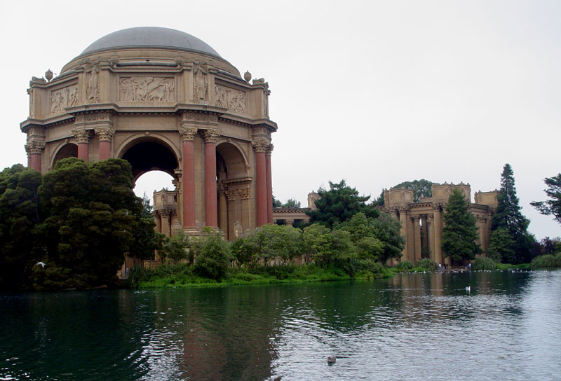 The Palace of Fine Arts in San Francisco.